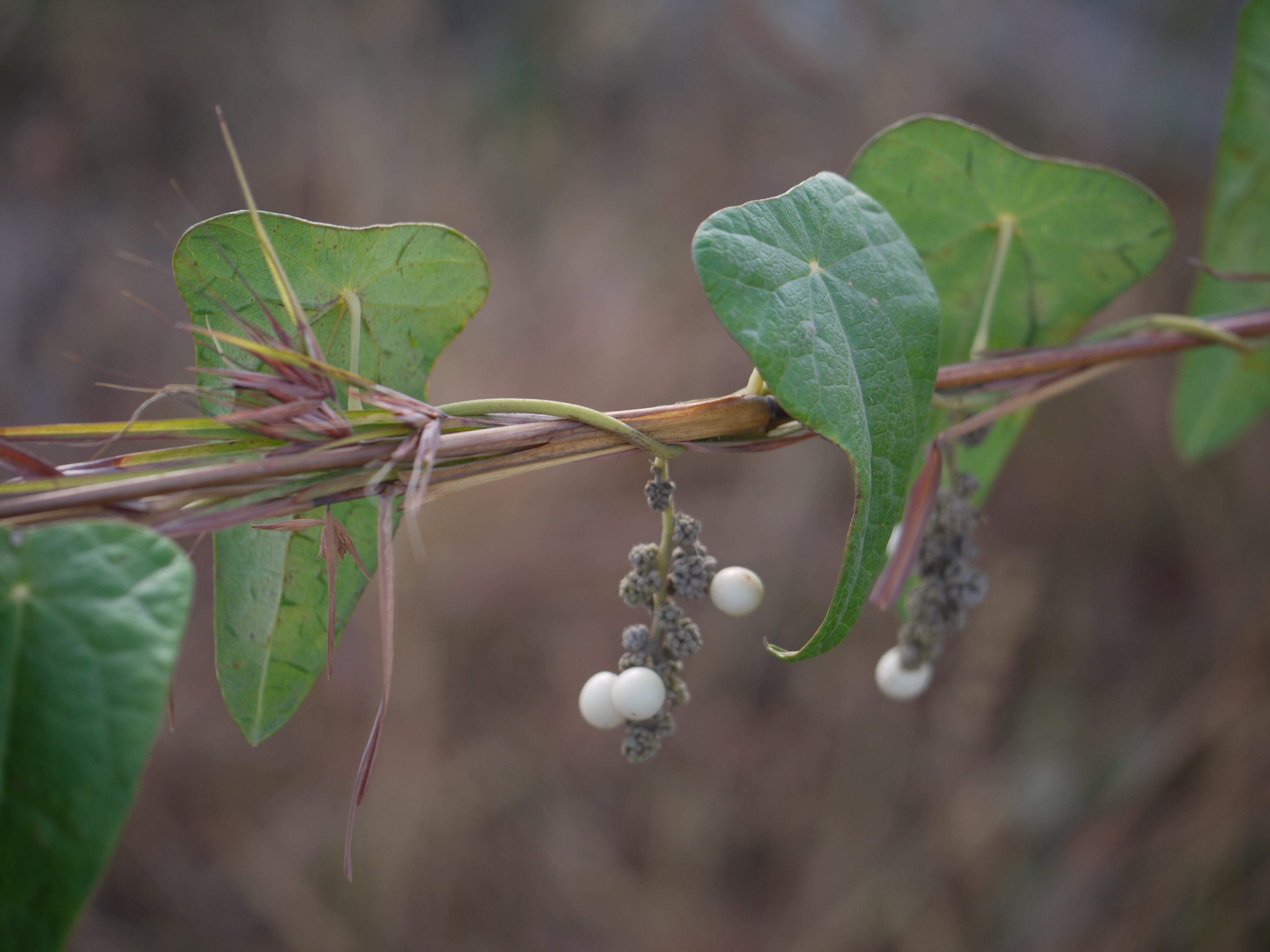 Menispermaceae (moonseed family) » Cyclea peltata SY-klee-uh -- from Greek kyklos (circle), refers to circular seeds pel-TAY-tuh -- round shield, referring to position of stalk in center of leaf commonly known as: buckler-leaved moon-seed • Kannada: ಹಡೆ ಬಳ್ಳಿ hade balli • Konkani: पाडावेल padavel • Malayalam: പാടത്താളി paataththaali • Marathi: मोठी पहाडवेल mothi pahadvel, थोरली पाडावळ thorali padaval • Sanskrit: बृहत् पाठा bruhat patha, राज पाठा raj patha • Tamil: பாடா pata, பொன்முசுட்டை pon-mucuttai • Telugu: పాటతీగె patatige Native of: peninsular India, Sri Lanka, Malesia References: Flowers of India • Herbal Cure India • ENVIS - FRLHT • ethnoleaflets